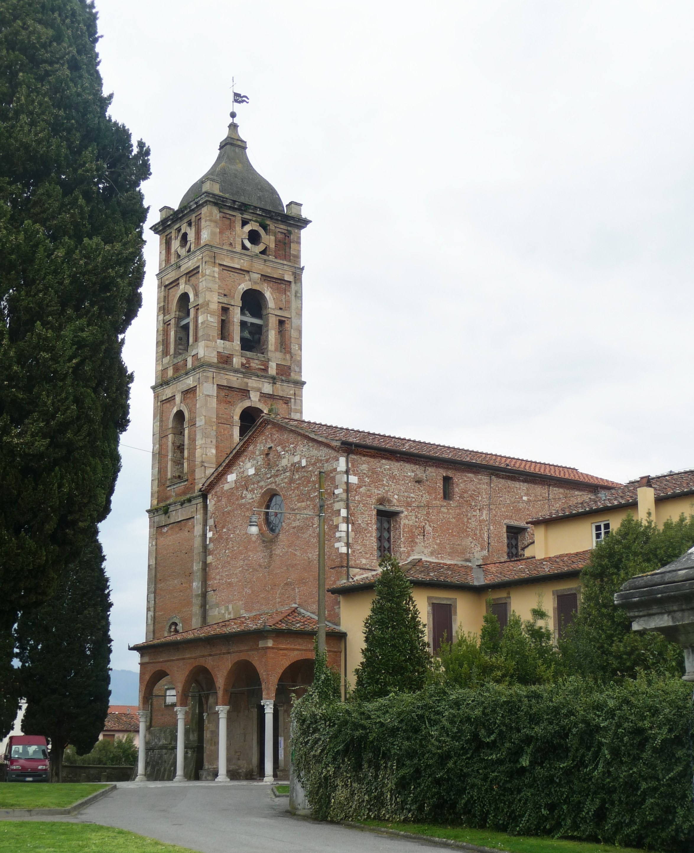 Chiesa di San Michele, Antraccoli, Lucca, Tuscany, Italy